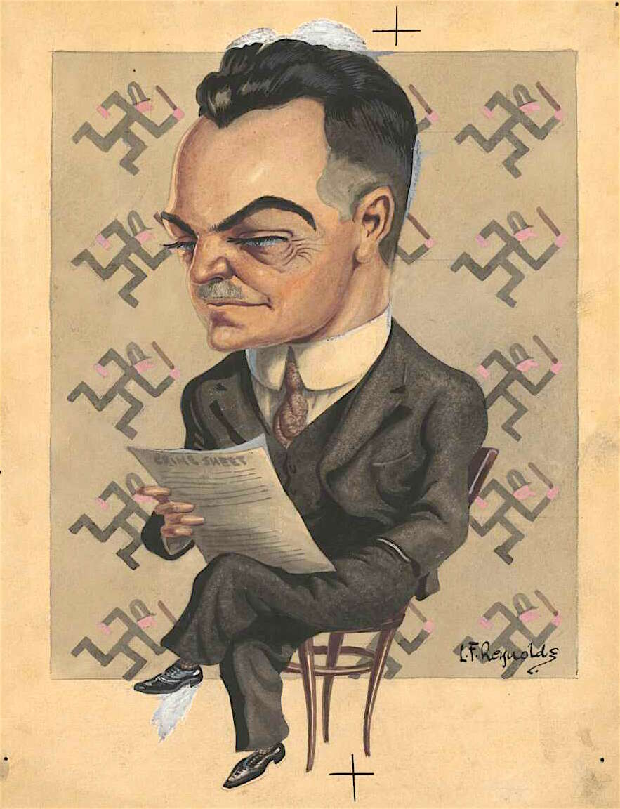 Caricature of Sir Thomas Blamey